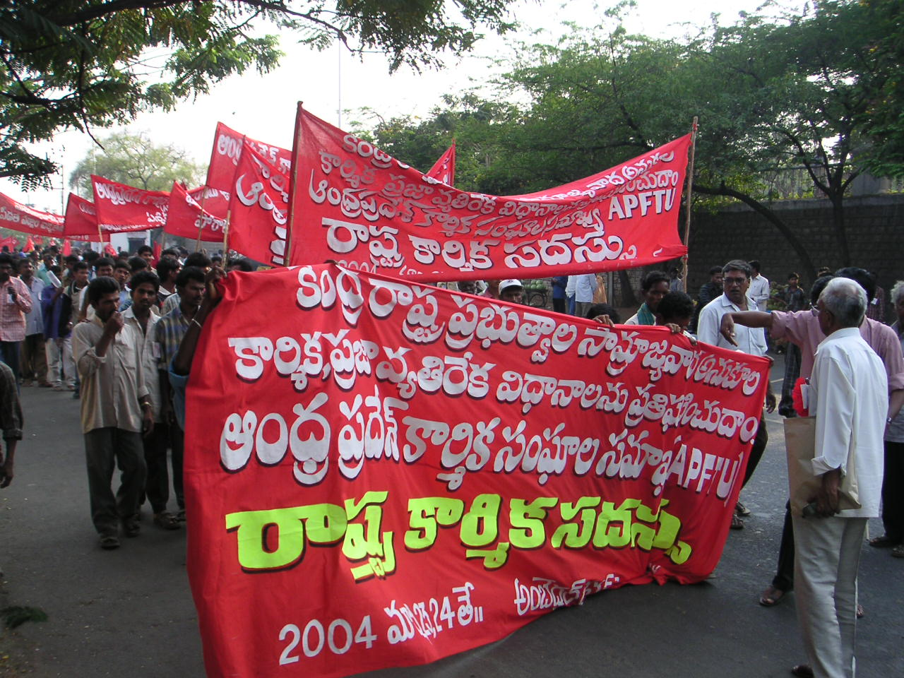 Andhra Pradesh Federation of Trade Unions rally in Hyderabad, India. Photo: Soman